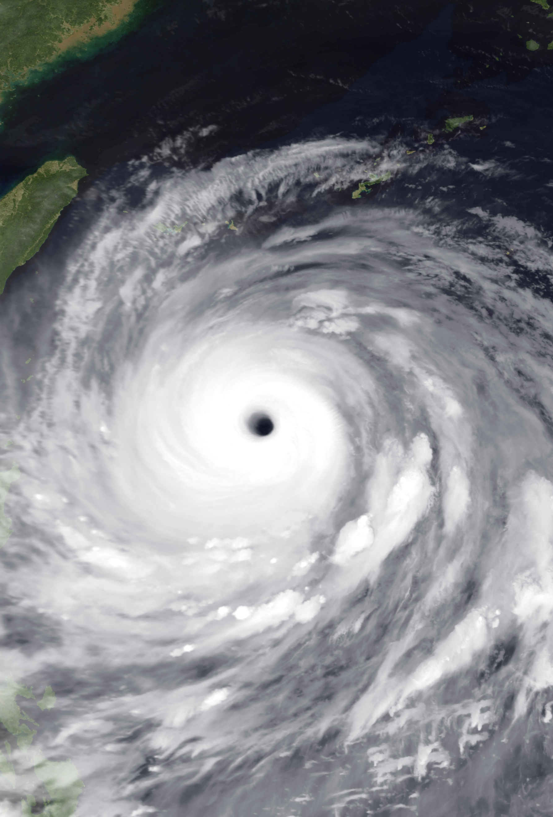 Typhoon Haitang near peak intensity